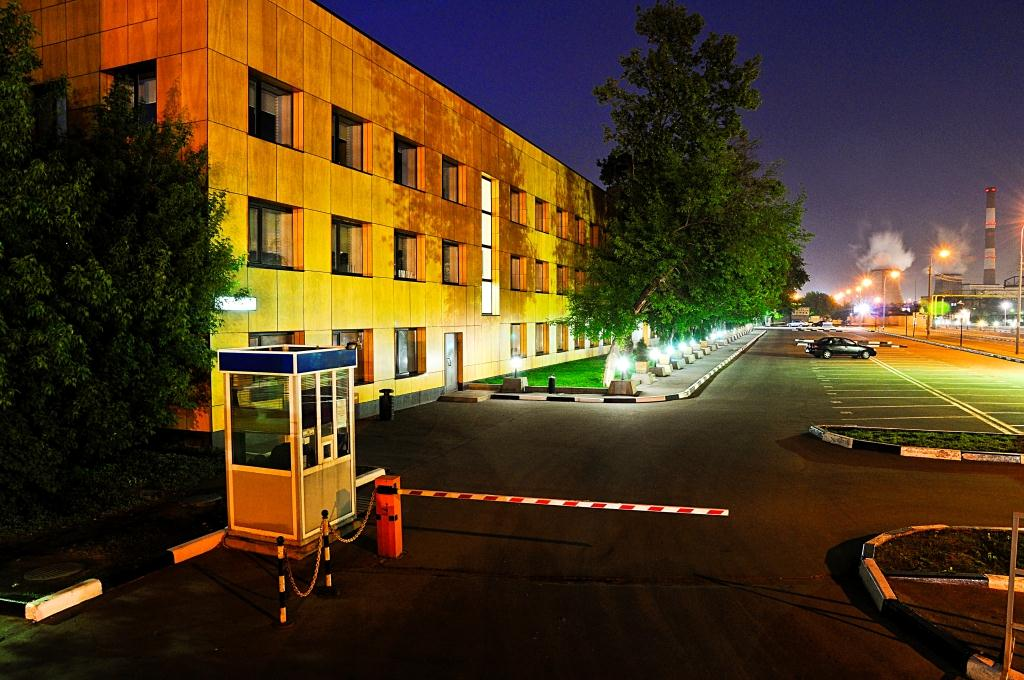 The Russian film studio 'Amedia', based in the converted former tyre and rubber factory building.